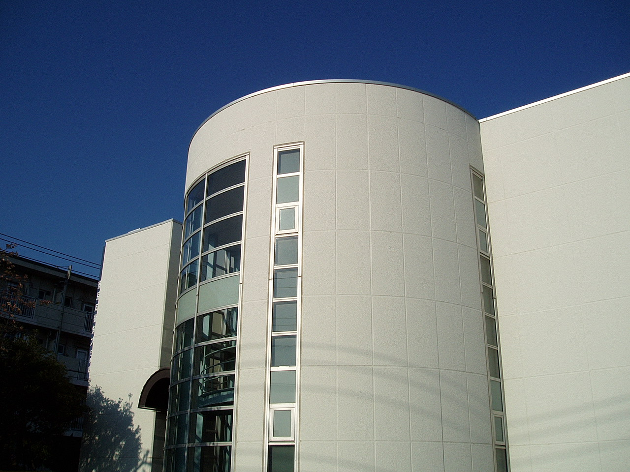 Building #5 at Jujodai Campus, Tokyo Seitoku University & College, located in Kita-ku, Tokyo, Japan.